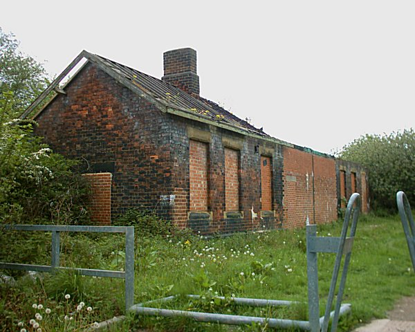 Dissused Grange Lane Station, Sheffield in 2006.